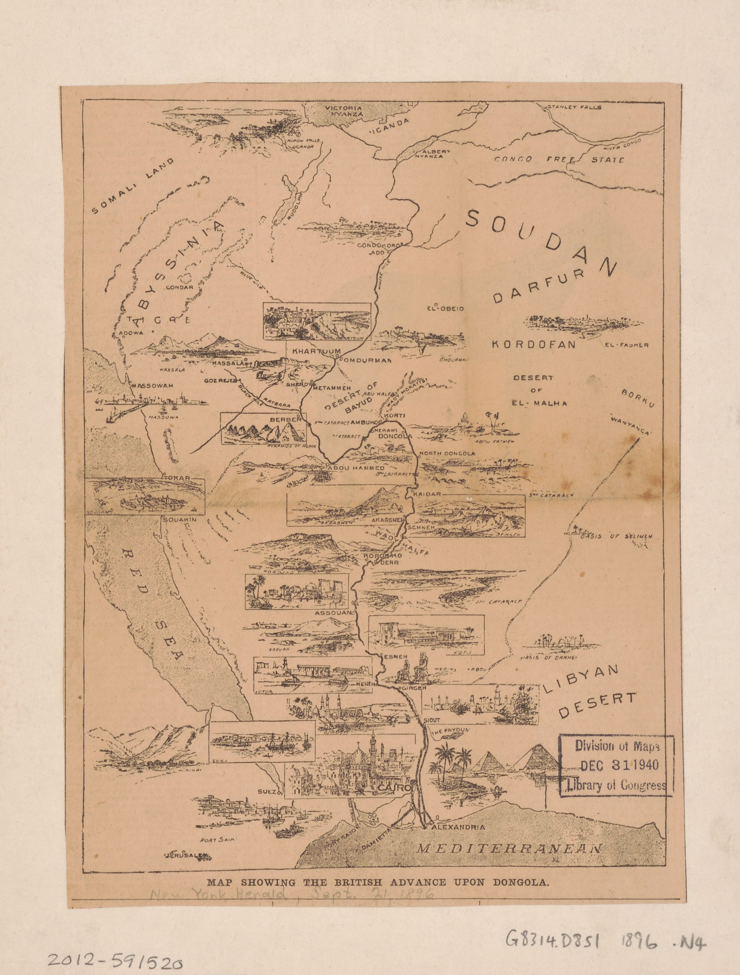 Shows "The Dongola Campaign", where Kitchener commanded the Anglo-Egyptian forces at the battles of "Firket" and "Hafir" against the Dervishes of the Mahdi movement in Sudan before going on to Dongola. The forces entered Dongola in September 1896. Gift; A.P. Loper; Dec. 13, 1940. Map is published in the New York Herald, Sept. 21, 1896. Available also through the Library of Congress Web site as a raster image.